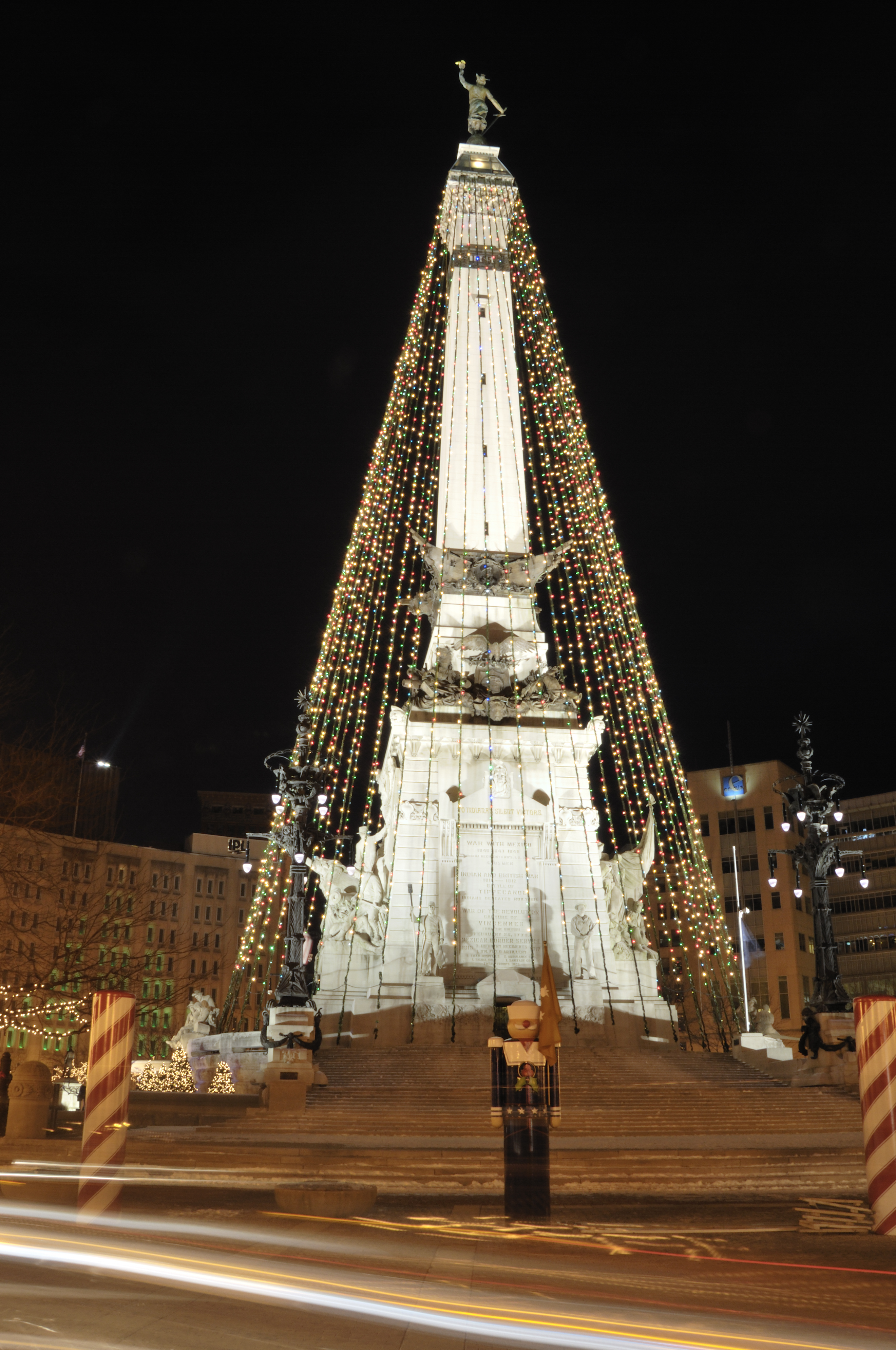 The Soldiers' and Sailors' Monument in Indianapolis, called the Tallest Christmas Tree. They turn the lights after Thanksgiving.